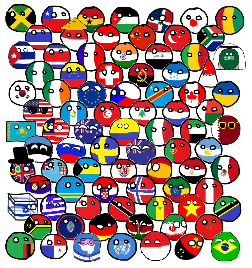 Selection of Polandballs representing several parts of the world. From left to right and top to bottom: Jamaica, Chile, Ghana, Jordan, Dominican Republic, Japan, Guinea, Thailand, Indonesia (a variant), Austria, China, Turkey, South Africa, Cuba, Costa Rica, France, India, Iraq, Mali, Saudi Arabia (one of the most used variants), Nigeria, Venezuela, Switzerland, Angola, Honduras, Singapore, South Korea, Ireland, European Union, Czech Republic, Democratic Republic of the Congo, Canada, Ukraine, United States, Guatemala, Tunisia, Lebanon, Netherlands, Madagascar, Kazakhstan, Malaysia, Australia, Colombia, Italy, United Arab Emirates, Qatar, Estonia, Russia, Sweden, New Zealand, Portugal, Argentina, Great Britain, Fiji, Bahamas, French Polynesia, Spain, Egypt, Mexico, Serbia, Aruba, Croatia, Norway, Ethiopia, Peru, Israel, Greece, Tonga, Trinidad and Tobago, Senegal, Vietnam, Tanzania, Vanuatu, Guam, Germany, Kenya, Iran, Morocco, Zambia, Panama, Antarctica (Bartram's flag proposal), United Nations, Poland, Papua New Guinea, Brazil.